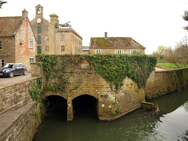 Wall and mill, Parrett Works